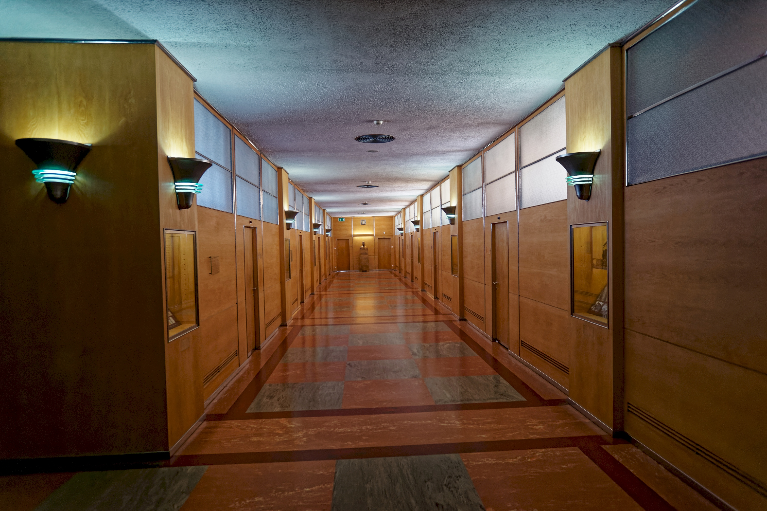 Zlín - Třída Tomáše Bati 21 - Baťův mrakodrap / Baťa's Skyscraper 1936-38 by Vladimír Karfík - 8th Floor - View ENE towards Bust of Tomas Bata, Founder of the Multinational Baťa Shoes - This used to be the Management Floor, everything is restored / kept to original shape